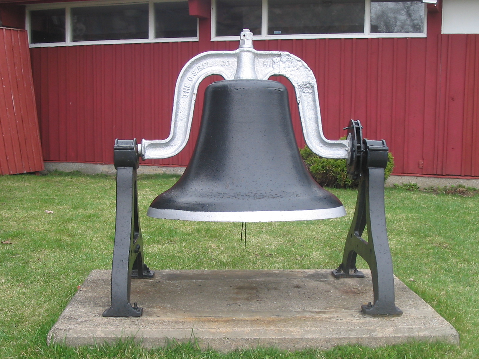 The bell at St. Stephen's Anglican Church, Buckingham PQ